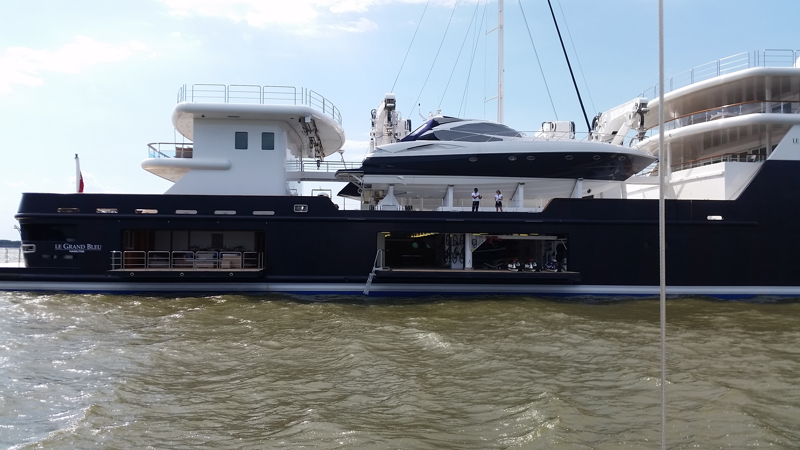 Starboard sundeck and equipment room (complete with mountain bikes, kayaks and jet skis) photographed at 30m from a passing sailboat.